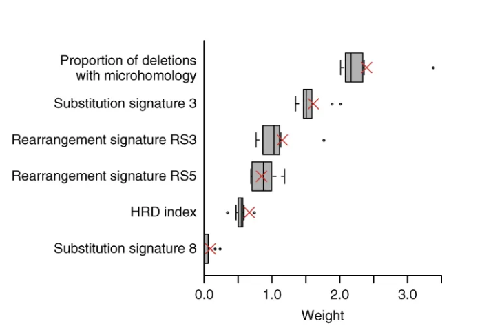 diagram of weights assigned to each signature